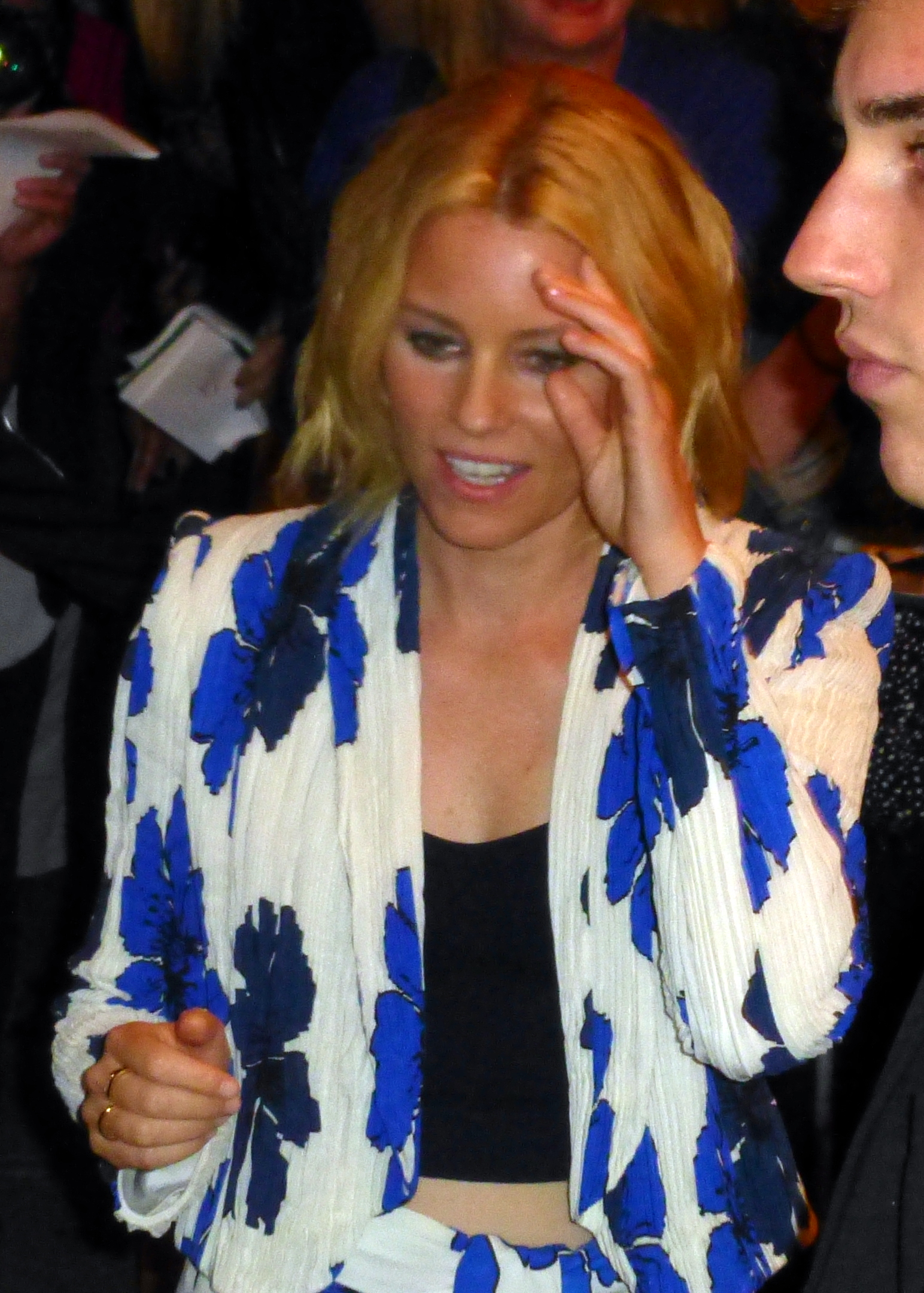 Elizabeth Banks at the premiere of Love and Mercy, Toronto Film Festival 2014